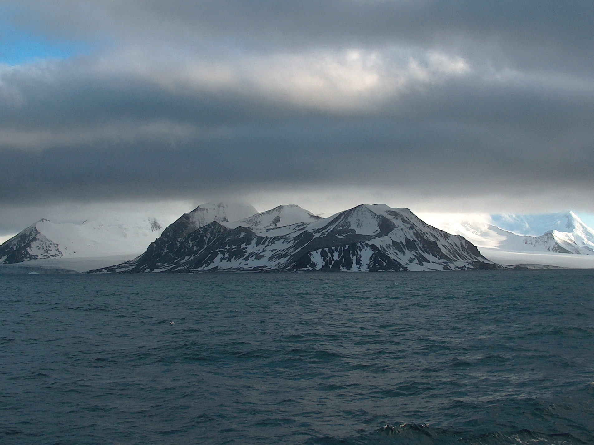 Photo of Barnard Point, Livingston Island, Antarctica taken from ROU Vanguardia